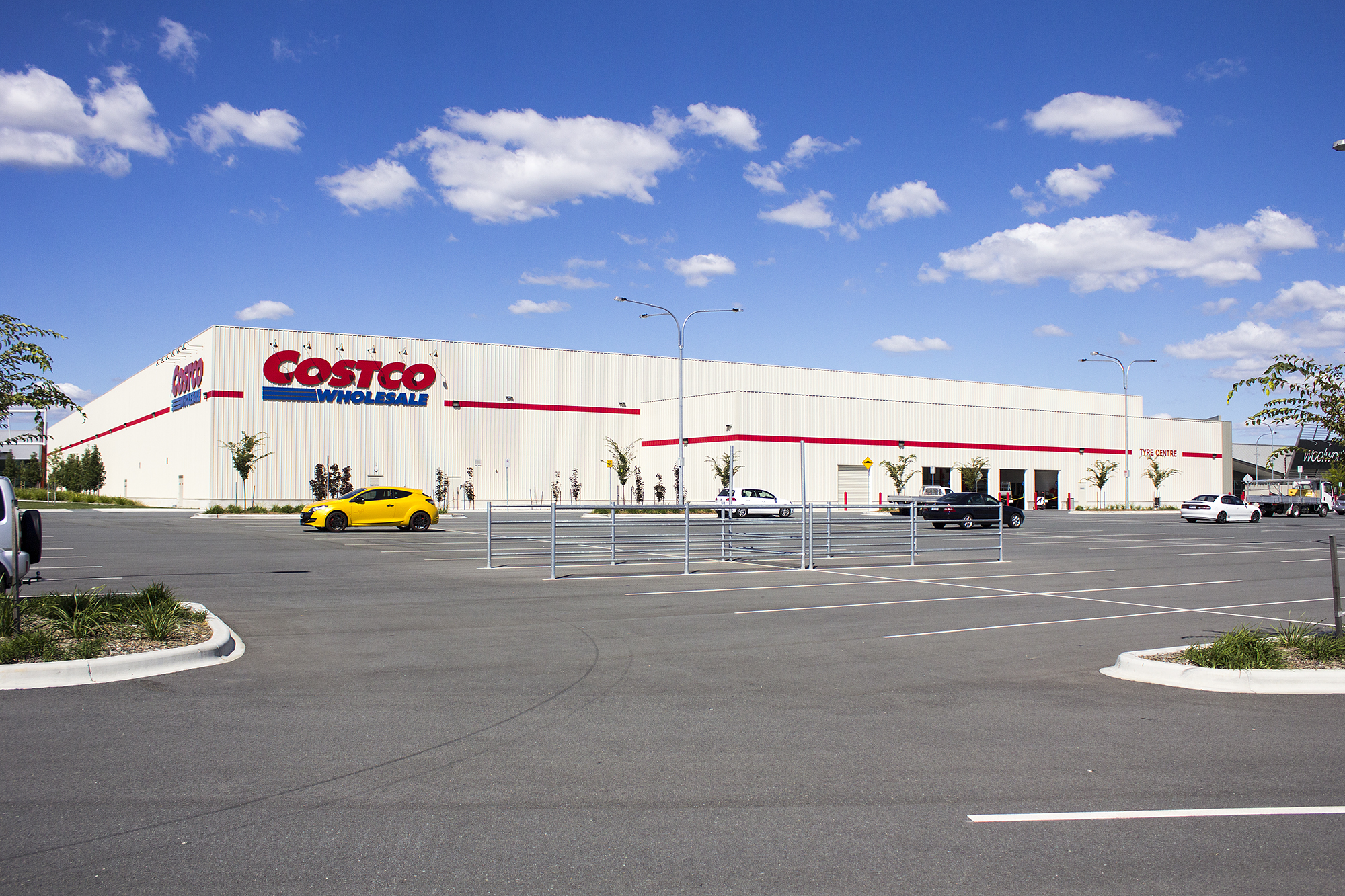 Costco at Majura Park in the Canberra suburb of Majura, Australian Capital Territory